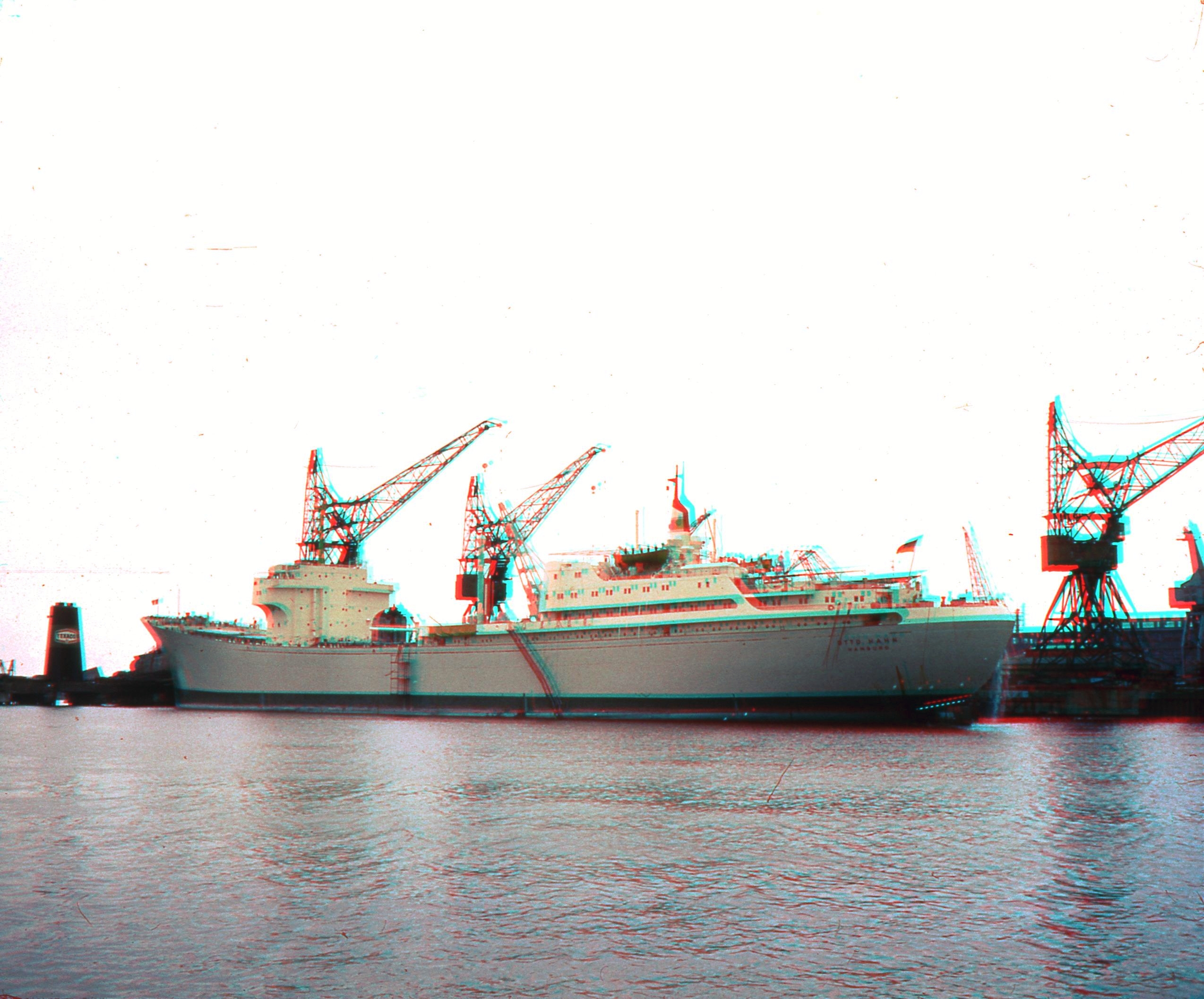 Logo Otto Hahn 1968